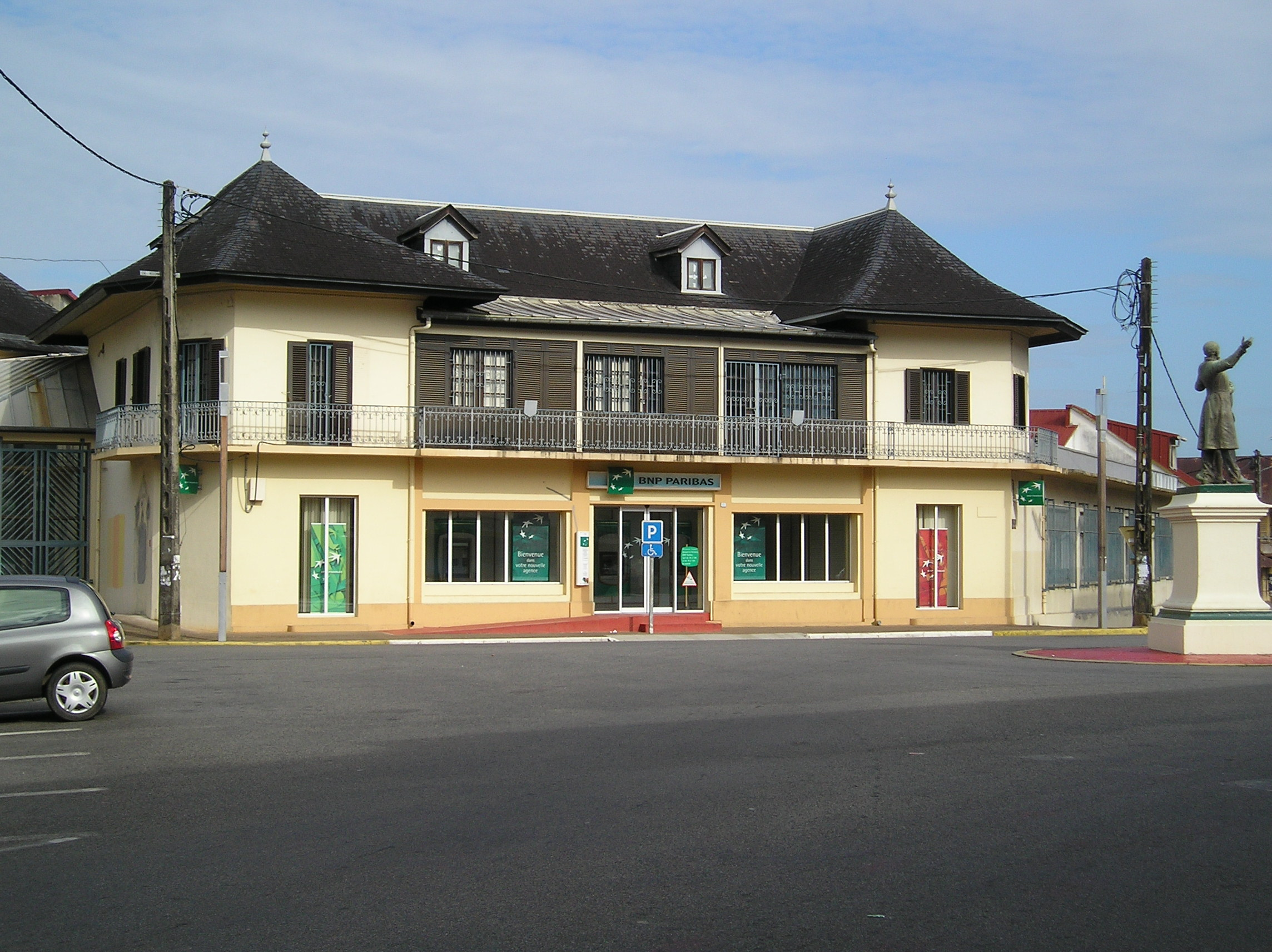 Cayenne, place Victor-Schoelcher, headquarter of Banque Nationale de Paris (BNP)